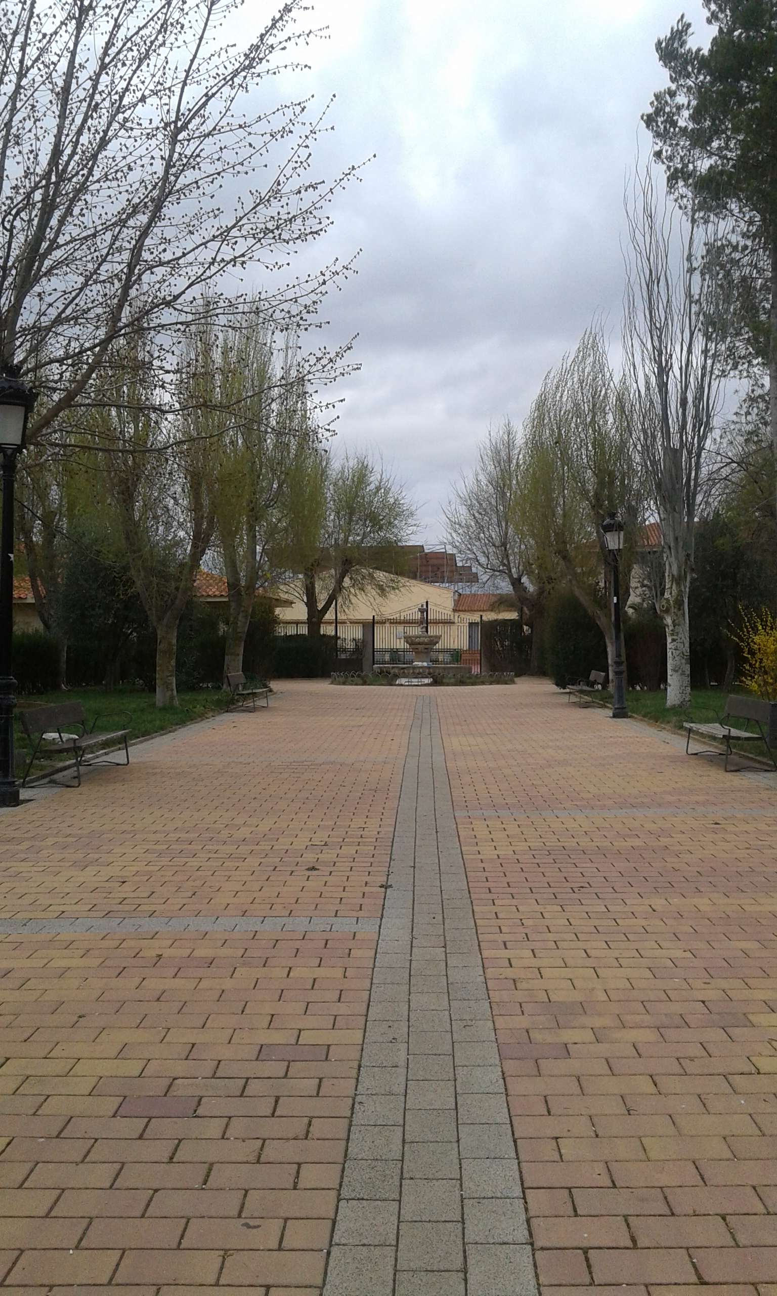 Parque Municipal de Casas de Fernando Alonso